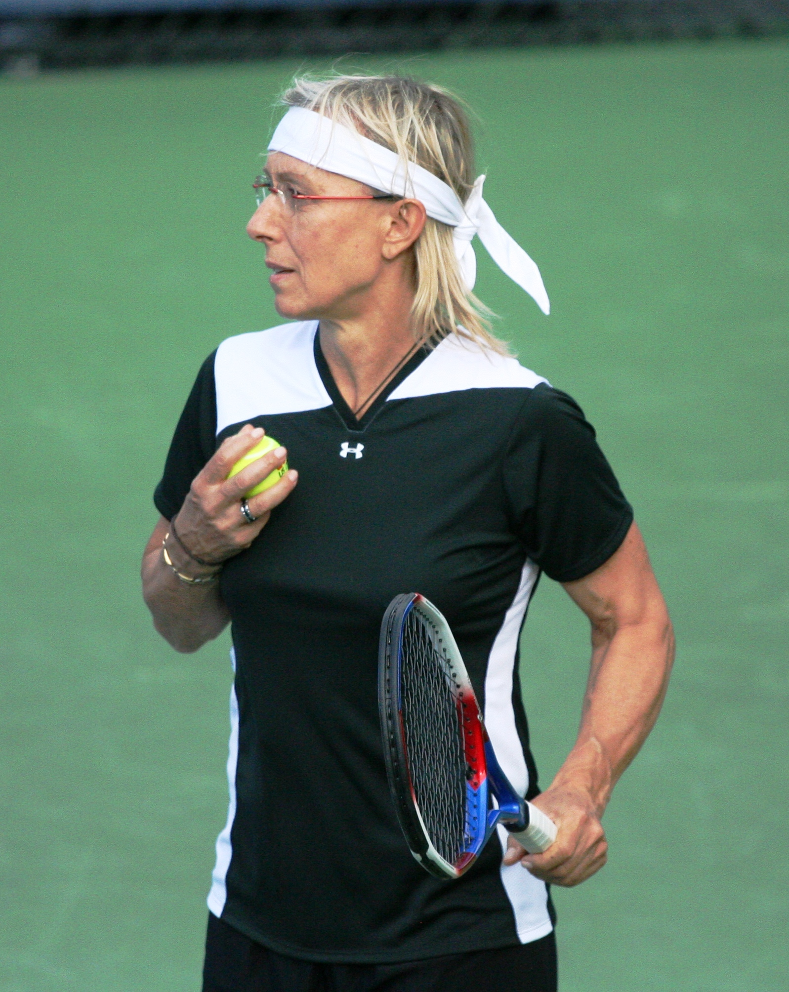 U.S. Open Champions Team Tennis Thursday, Sept. 9, 2010